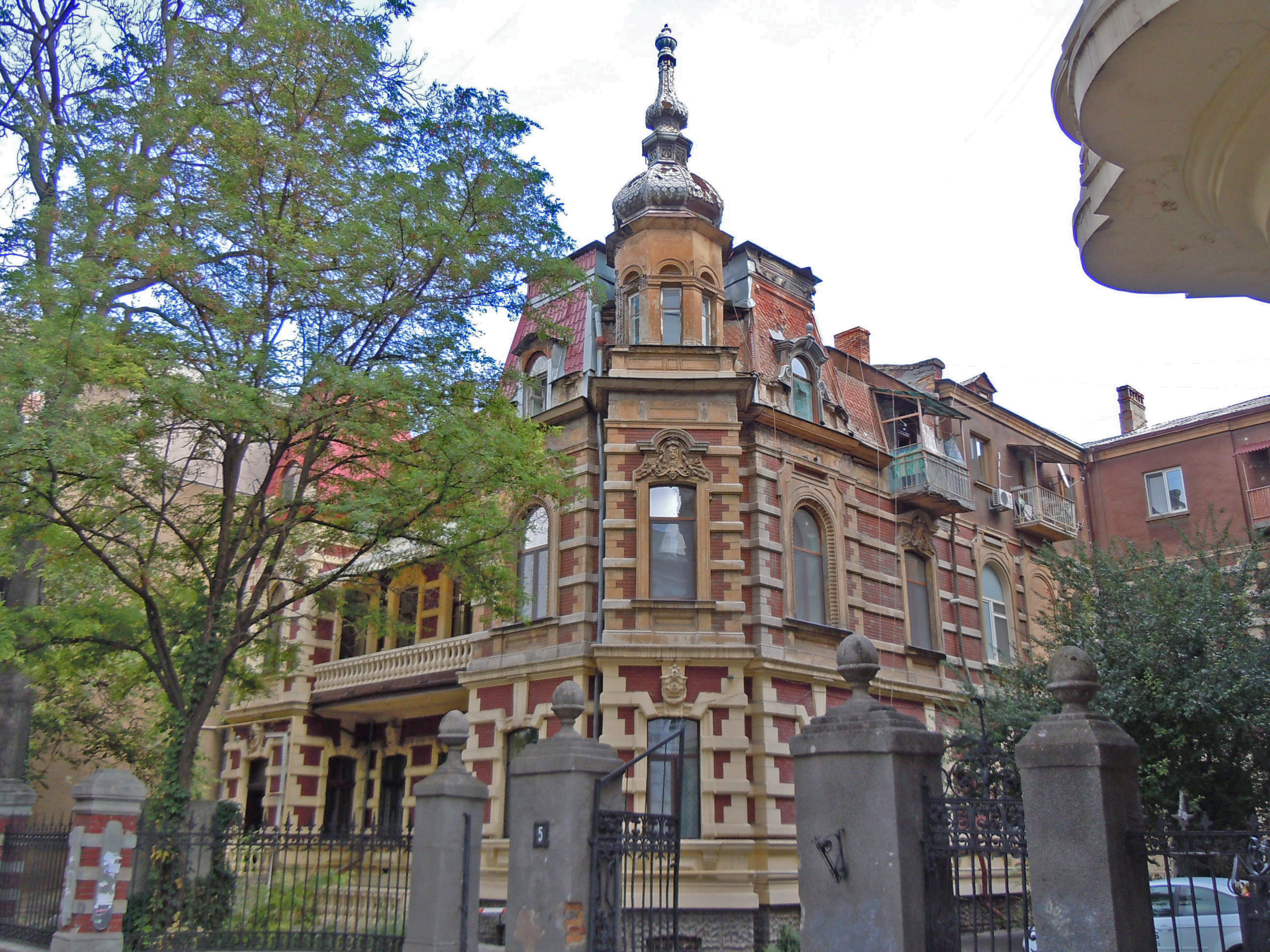 Falz-Fein House in Odessa, Gogolia Str.